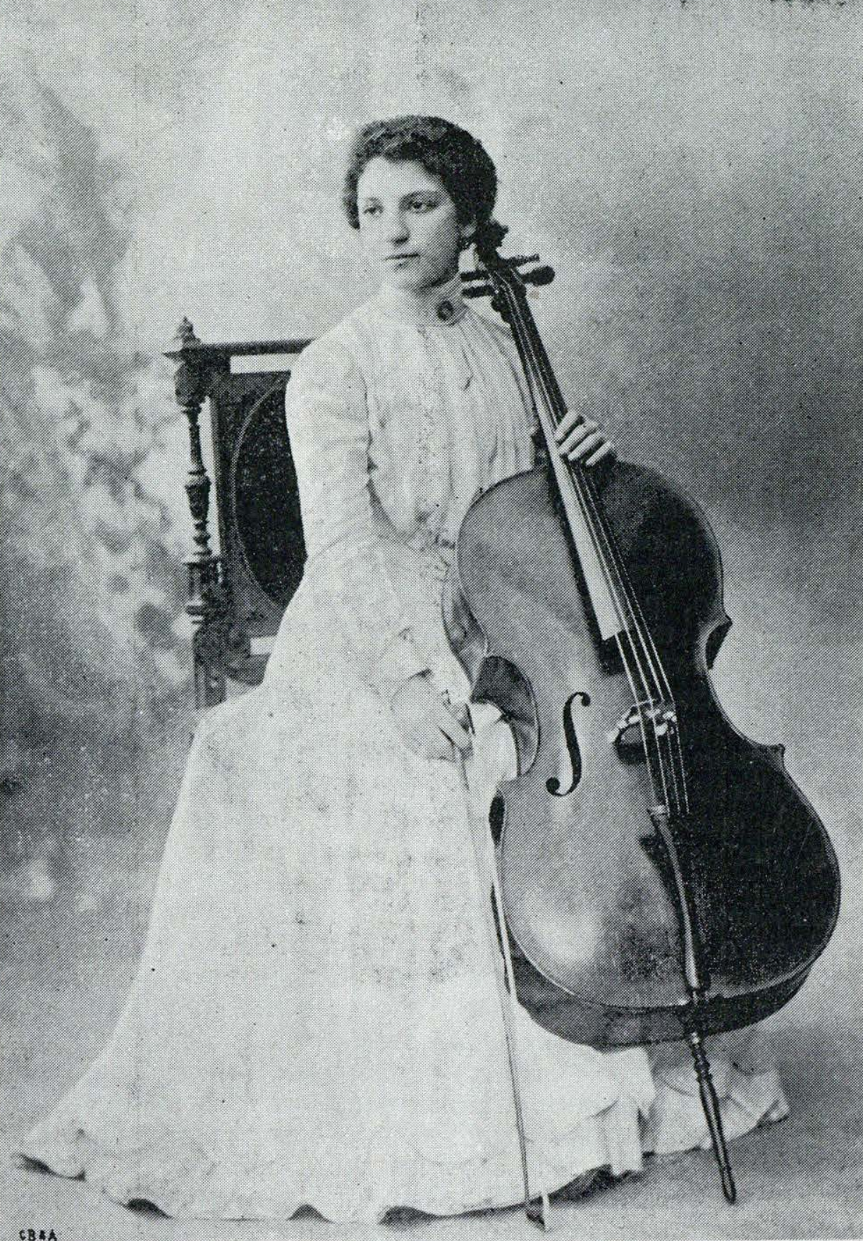 Guilhermina Suggia